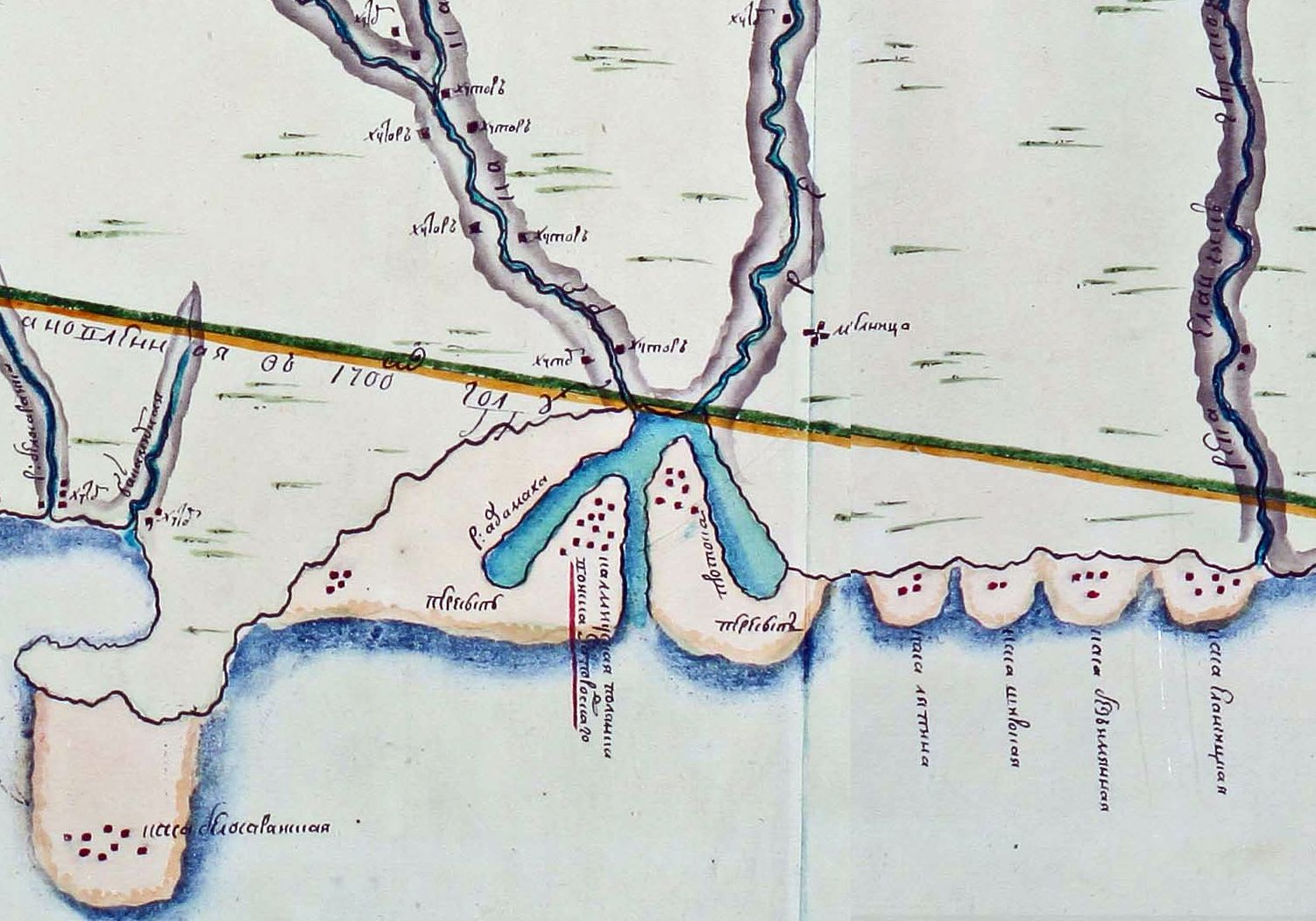 map of places near the fortress of Rostov with indicating the boundaries of the Russian Empire by Rigelman (1768)